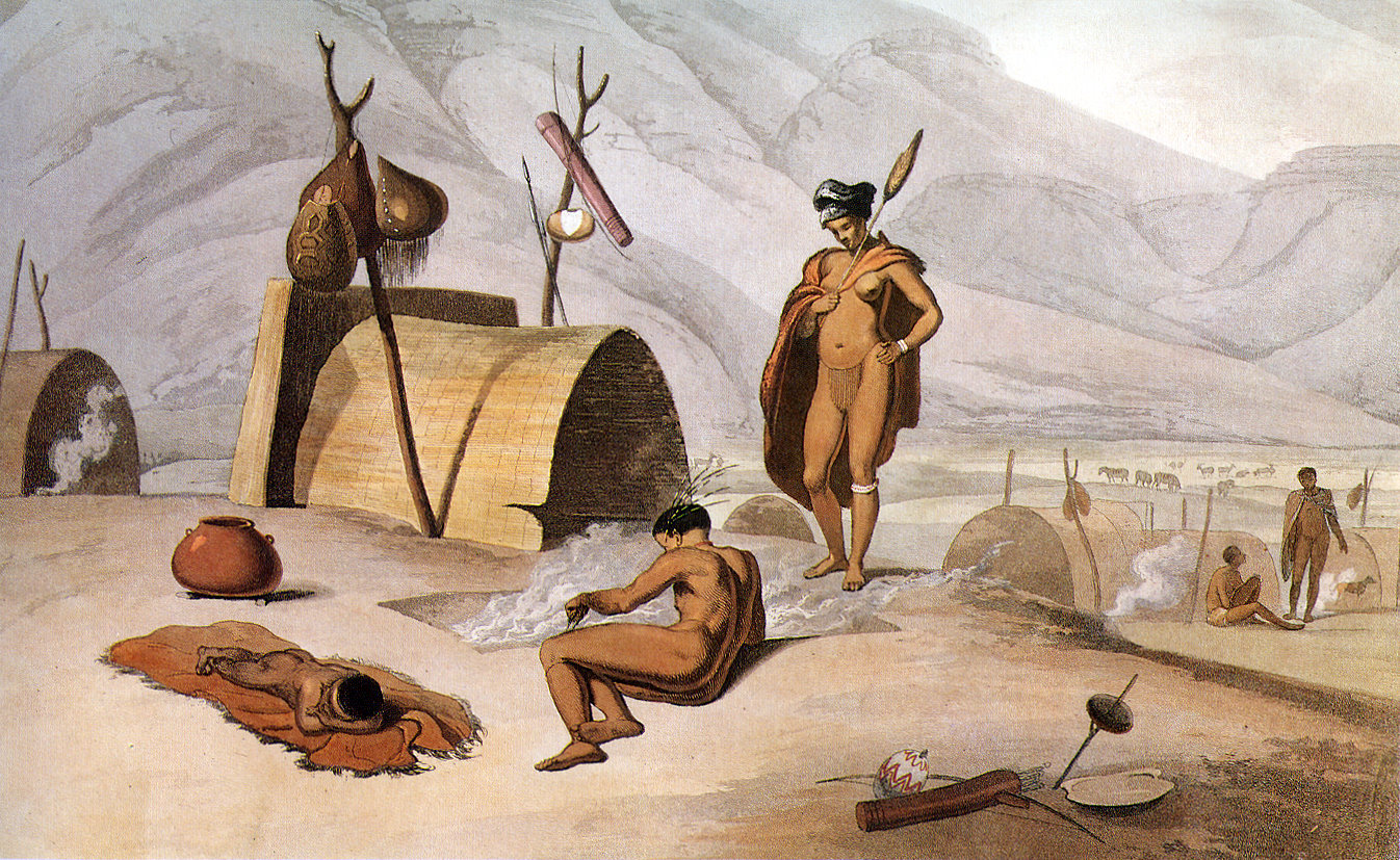 "Khoisan engaged in roasting grasshoppers on grills" (1989 caption) 1805 aquatint by Samuel Daniell. Original caption: "Bosjemans frying Locusts" [1]